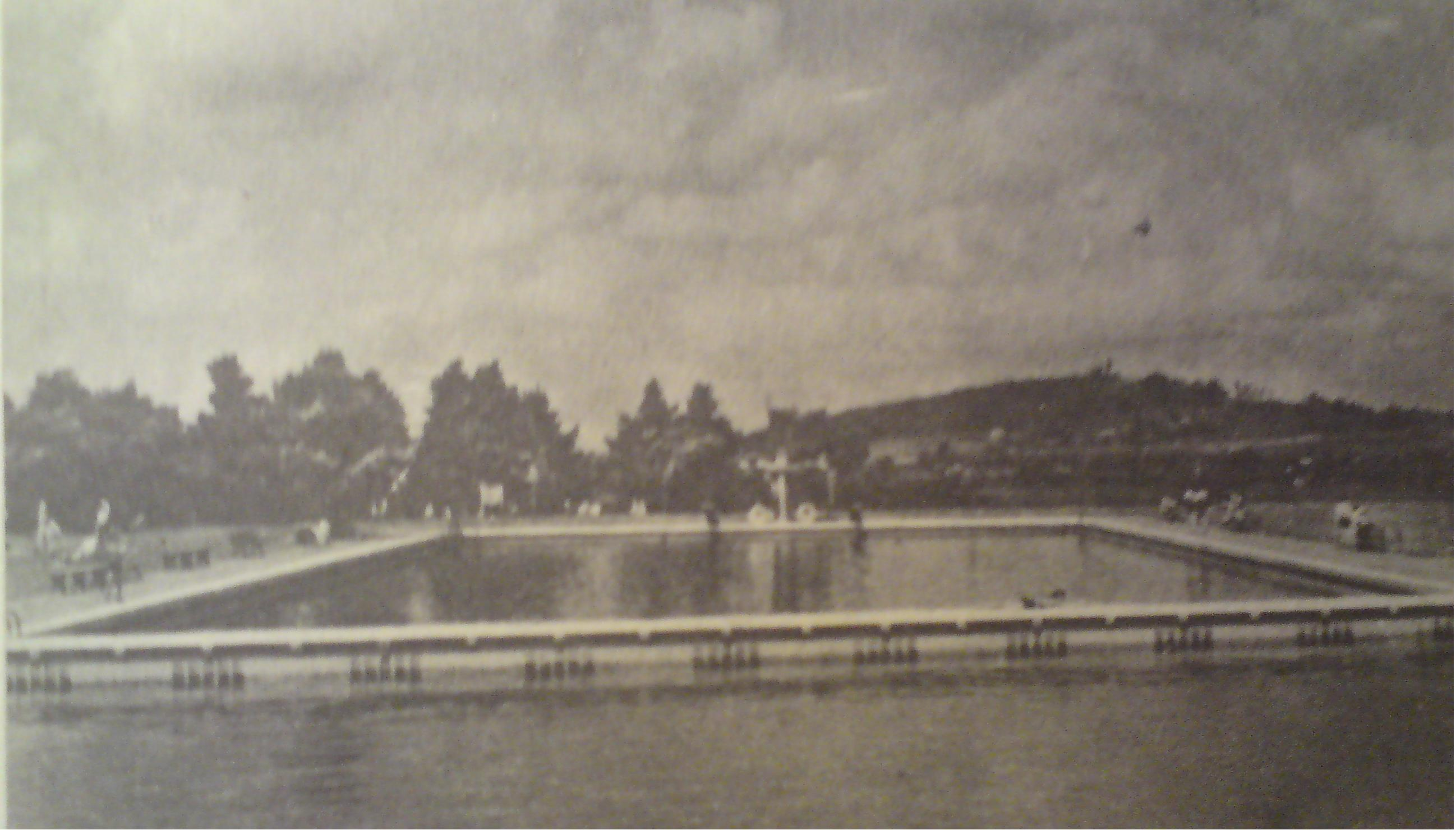 Swimming pool at Stadion Leśny in Kielce